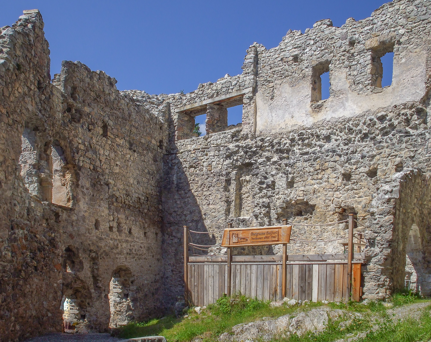 Interior of the ruin of Belfort castle ("Ruina Belfort") which is located close to the town of Brienz / Brinzauls in the canton of Graubünden, Switzerland